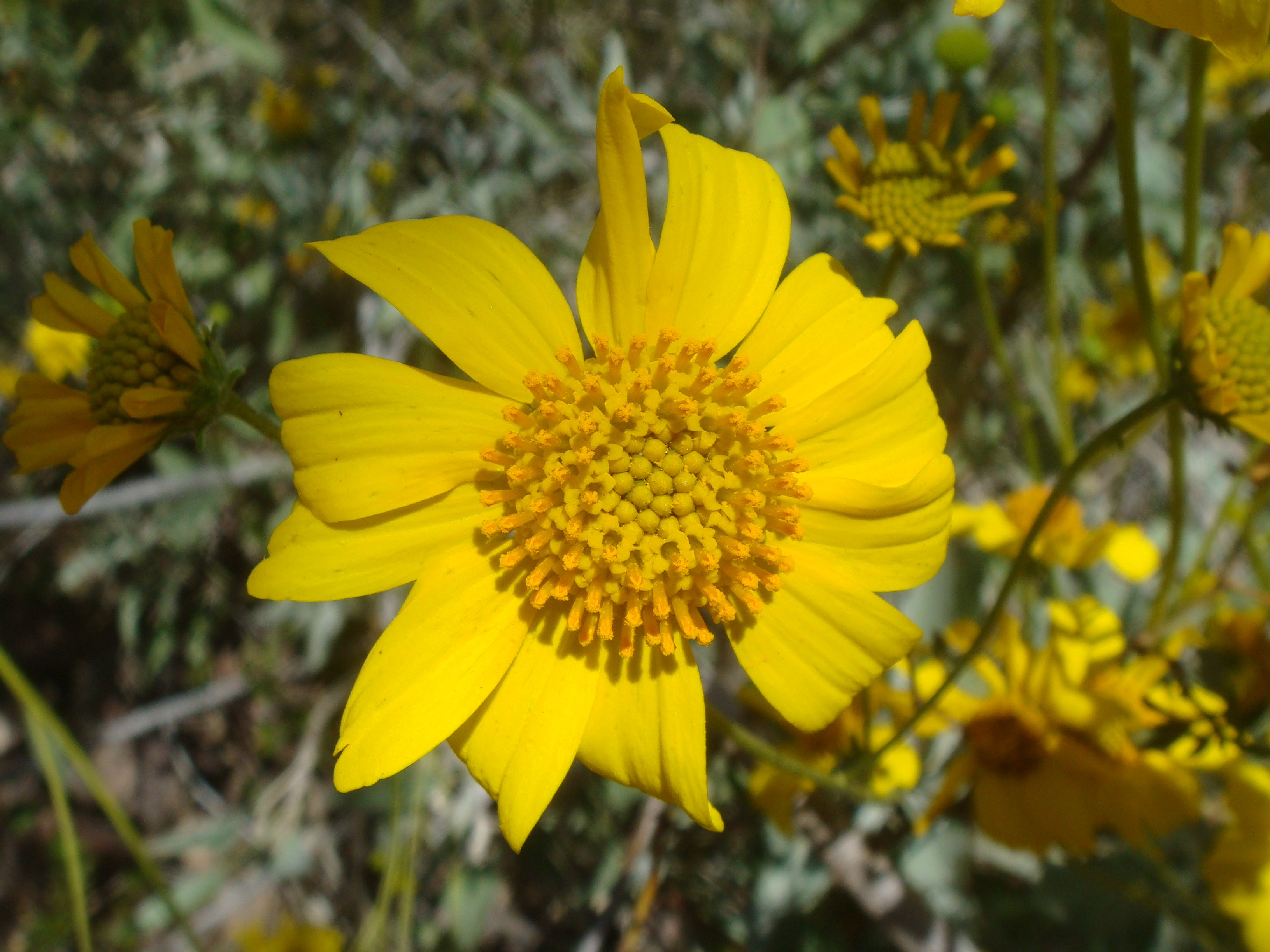 Encelia farinosa — Brittlebush. Cultivated, at the Arizona State University at the Tempe campus, Arizona.